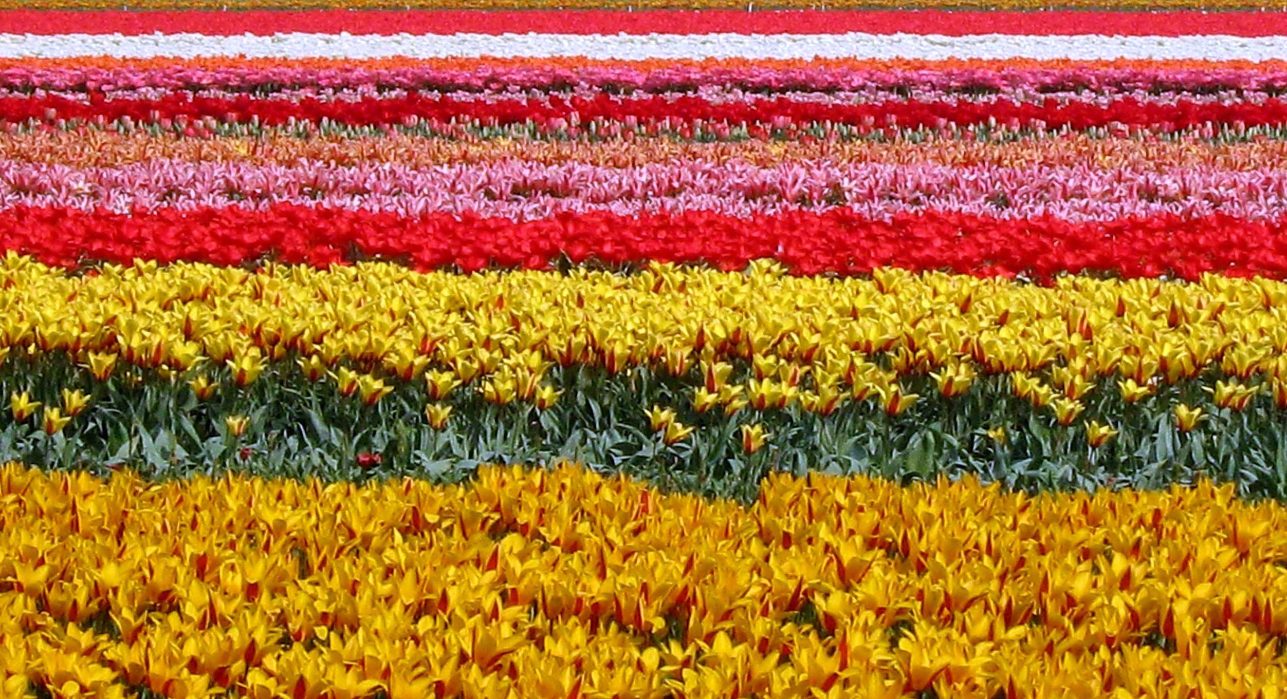 Tulips on a field besides Keukenhof in Holland